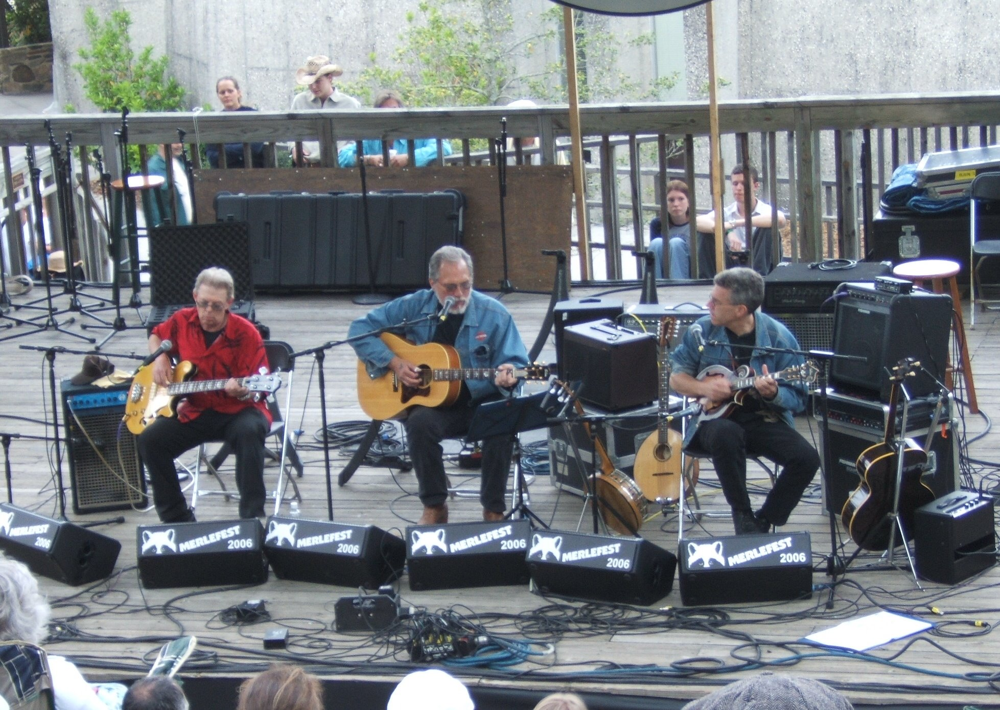 Hot Tuna at Merlfest